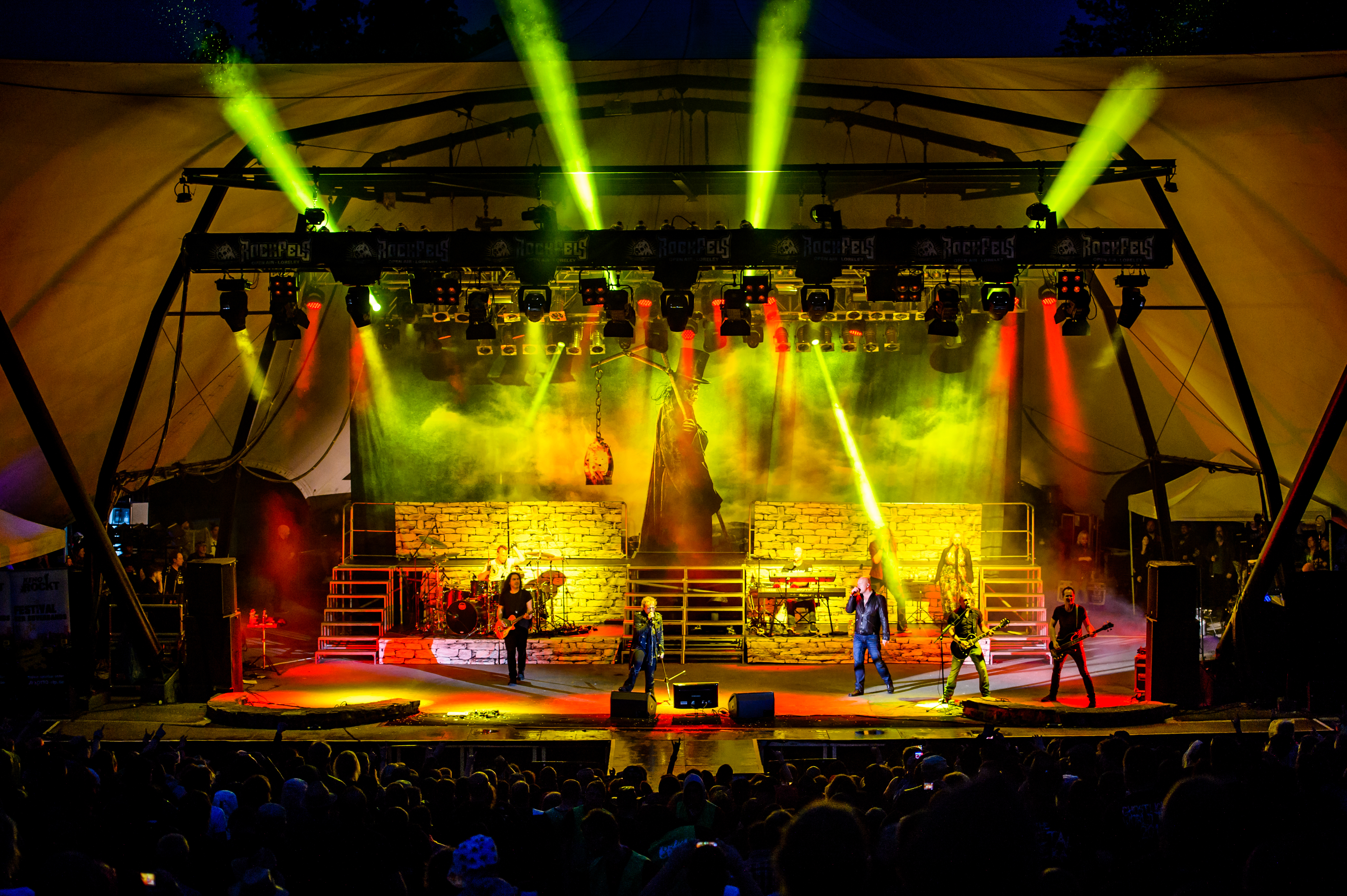 Avantasia; RockFels 2016 - Loreley